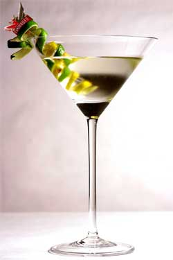 Vesper Martini